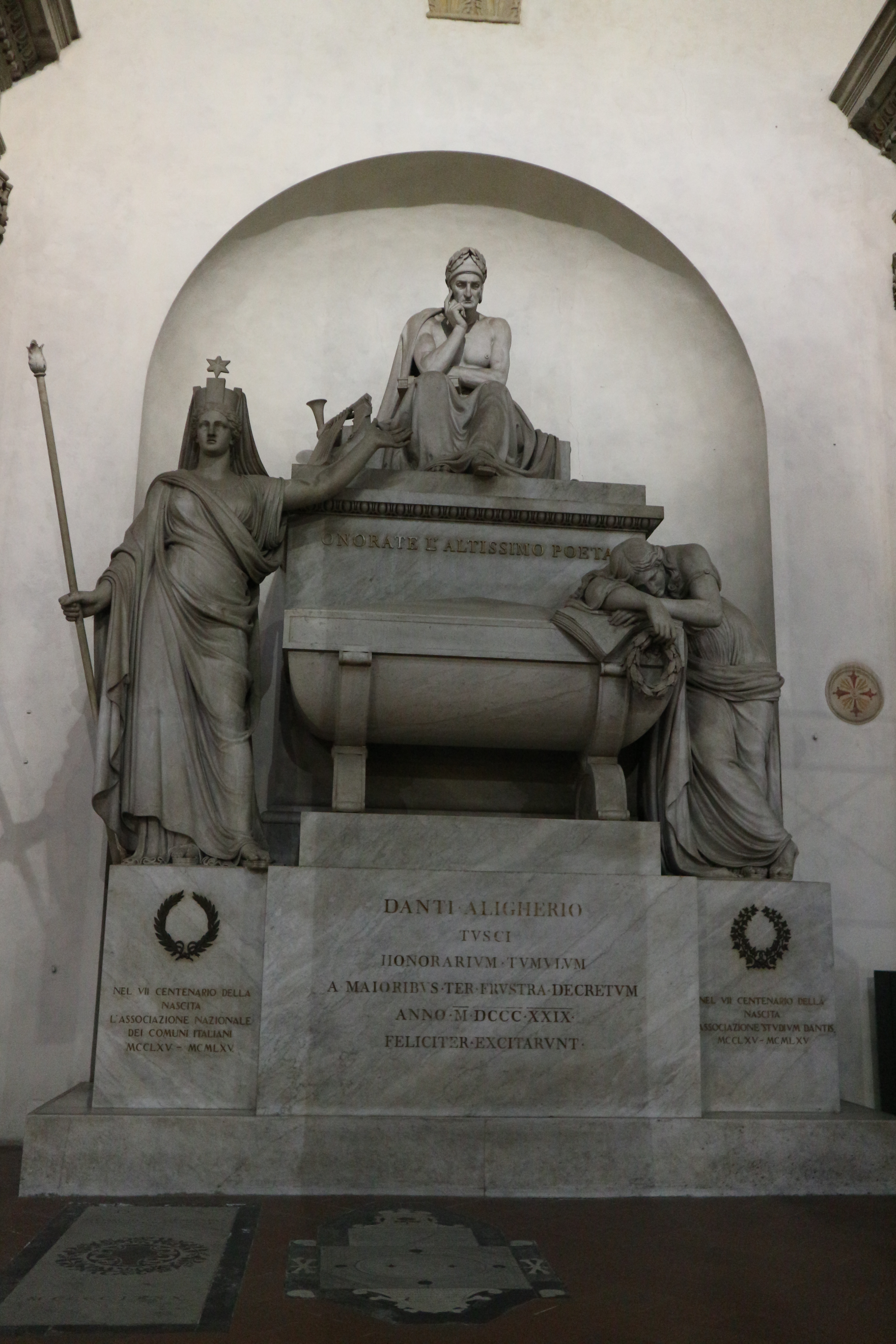 Cenotafio di Dante nella Basilica di Santa Croce